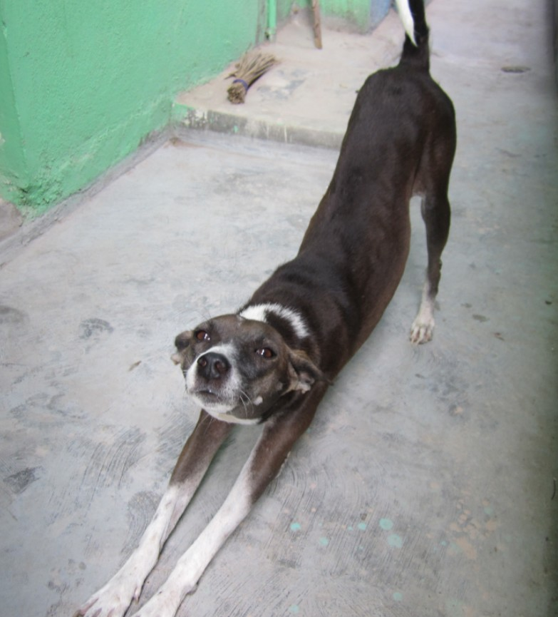 Street dog in Tamilnadu,India